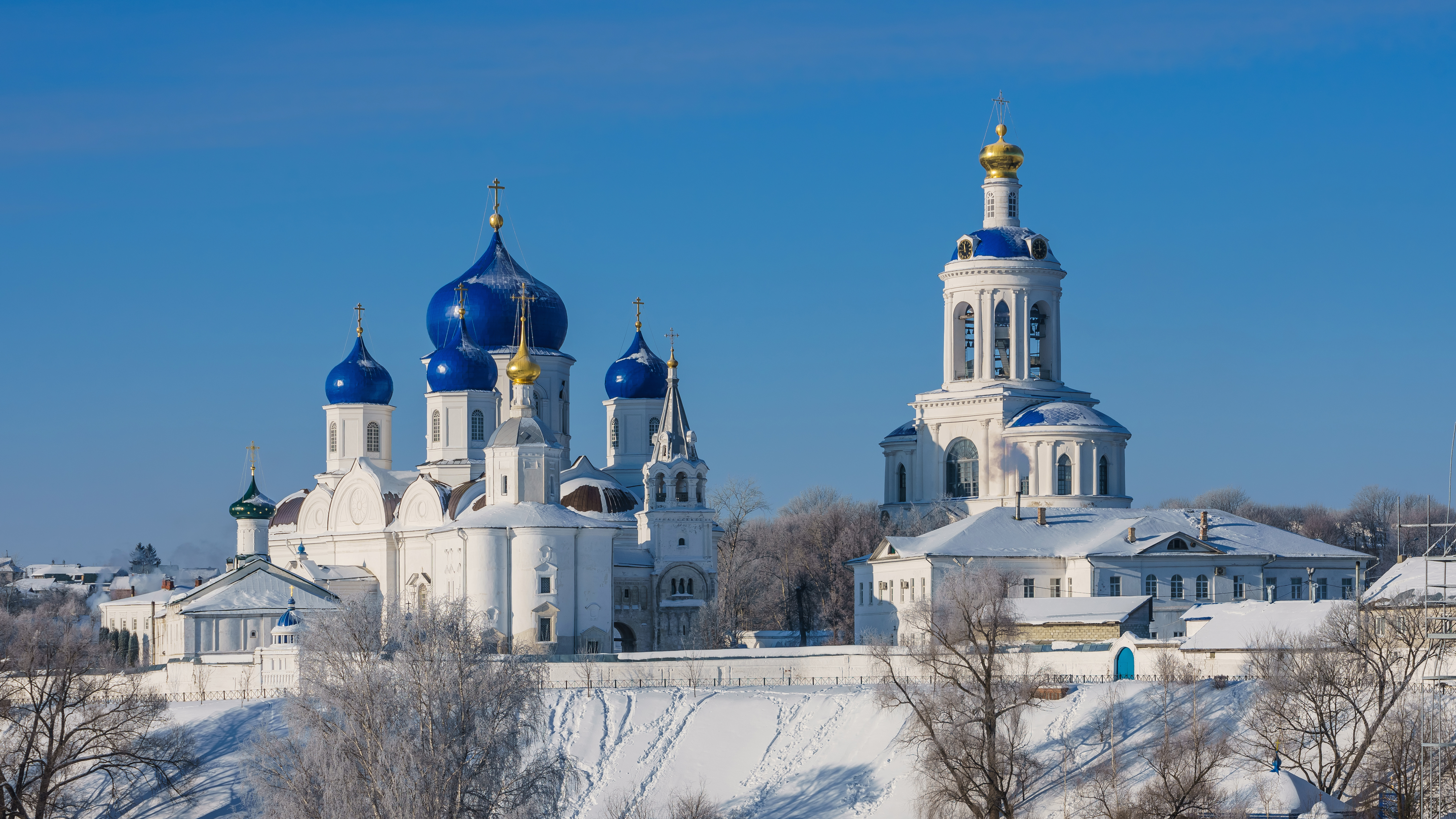 Bogolyubsky Monastery in Bogolyubovo near Vladimir, Russia